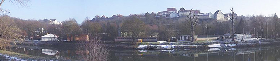 Panoramic view of Marbach am Neckar (Germany)